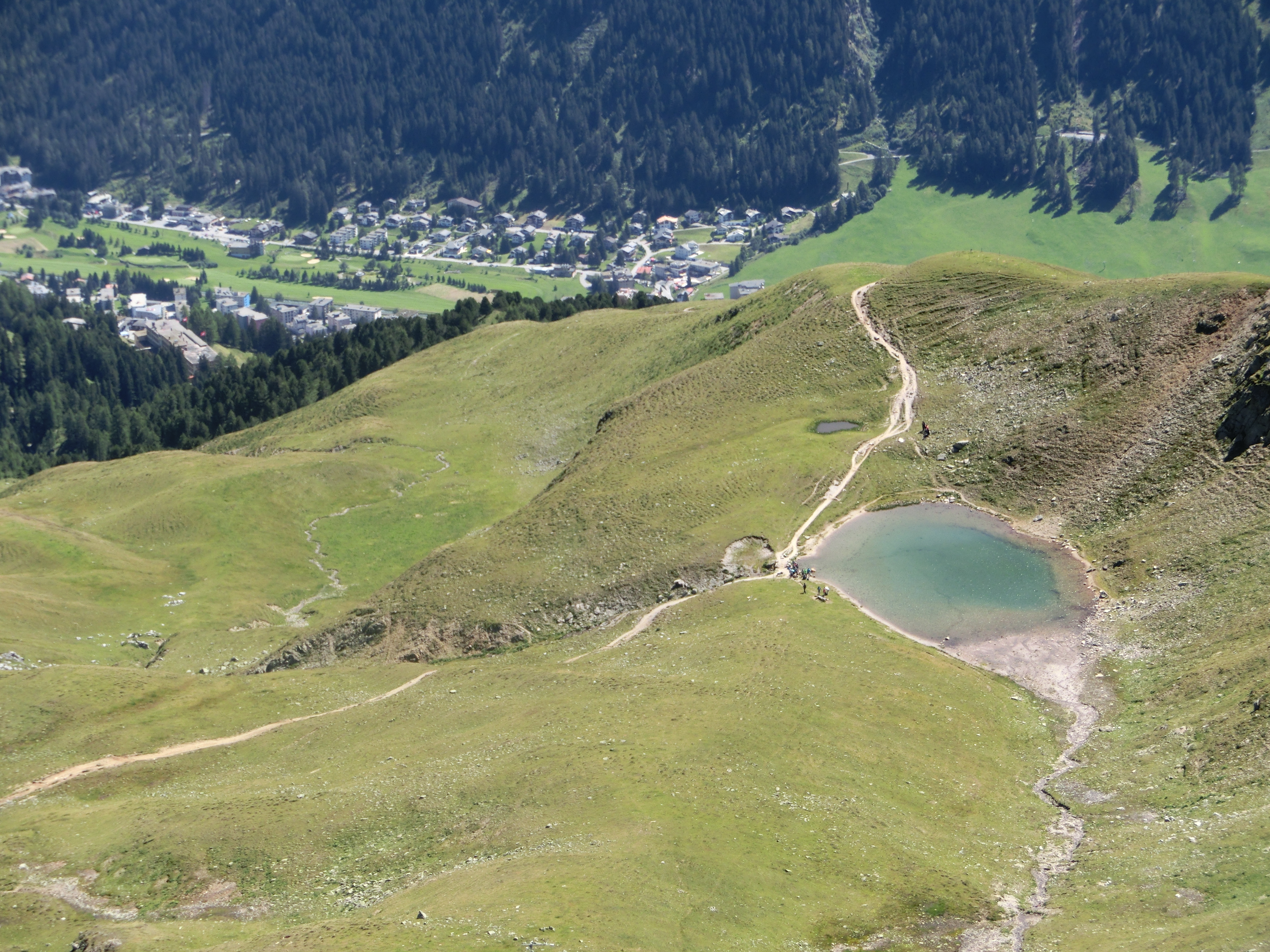 Strelasee and Davos, picture taken from Strela, Arosa, Davos, Grison, Switzerland